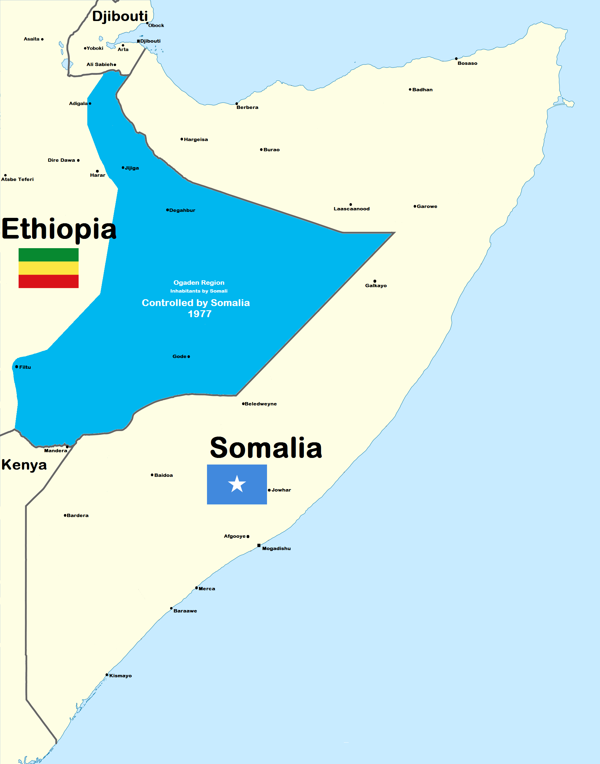 Ethio-Somali War Map 1977